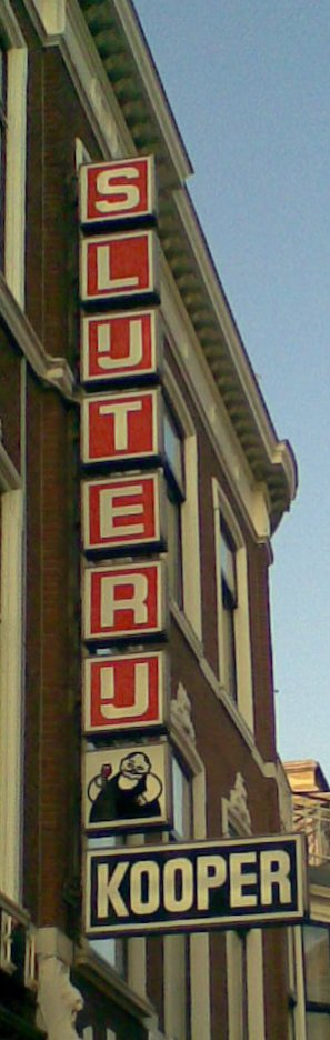 Dutch Signbord of a liquor store, example of the use of the Dutch letter IJ as a single character